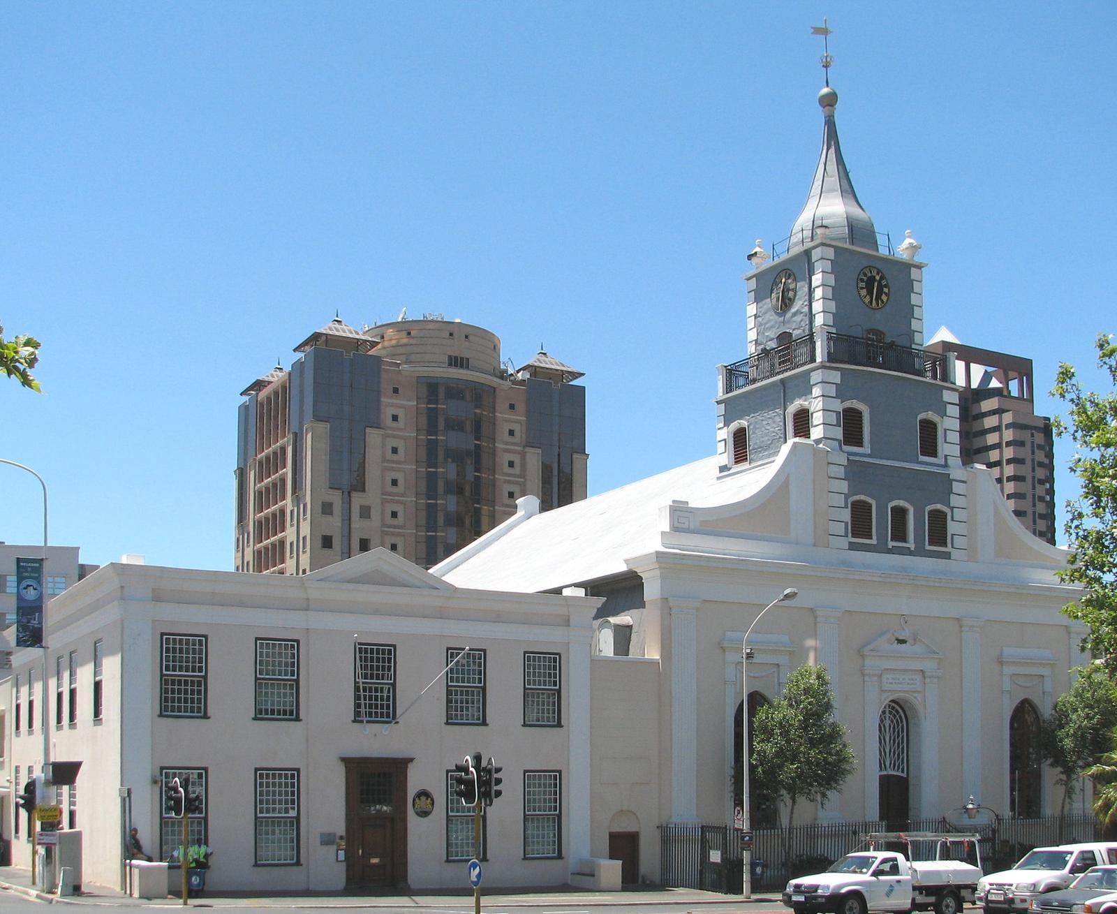 Netherlands Embassy in Cape Town.